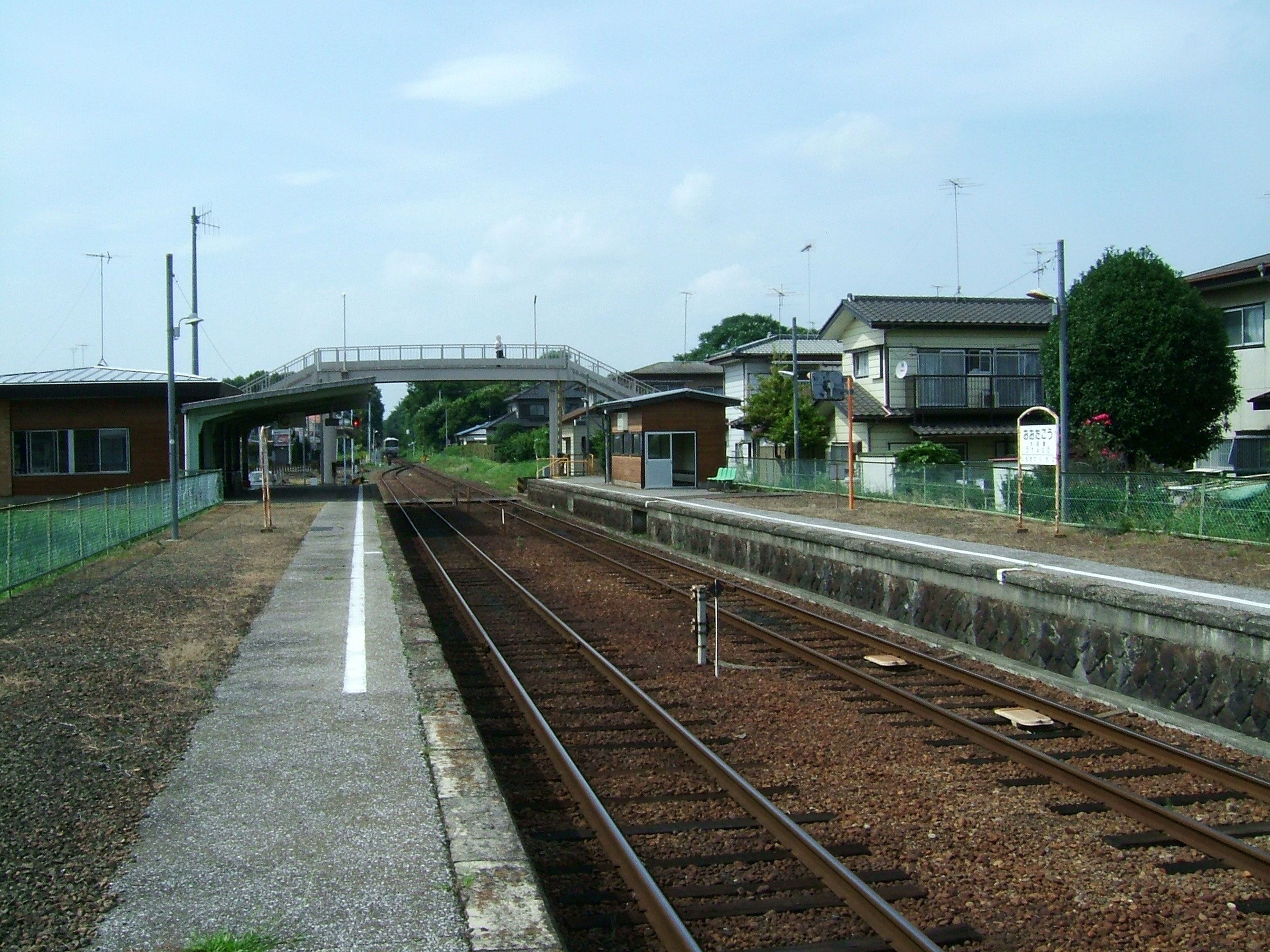 Ōtagō Station platform (Kanto Railway Jōsō Line)